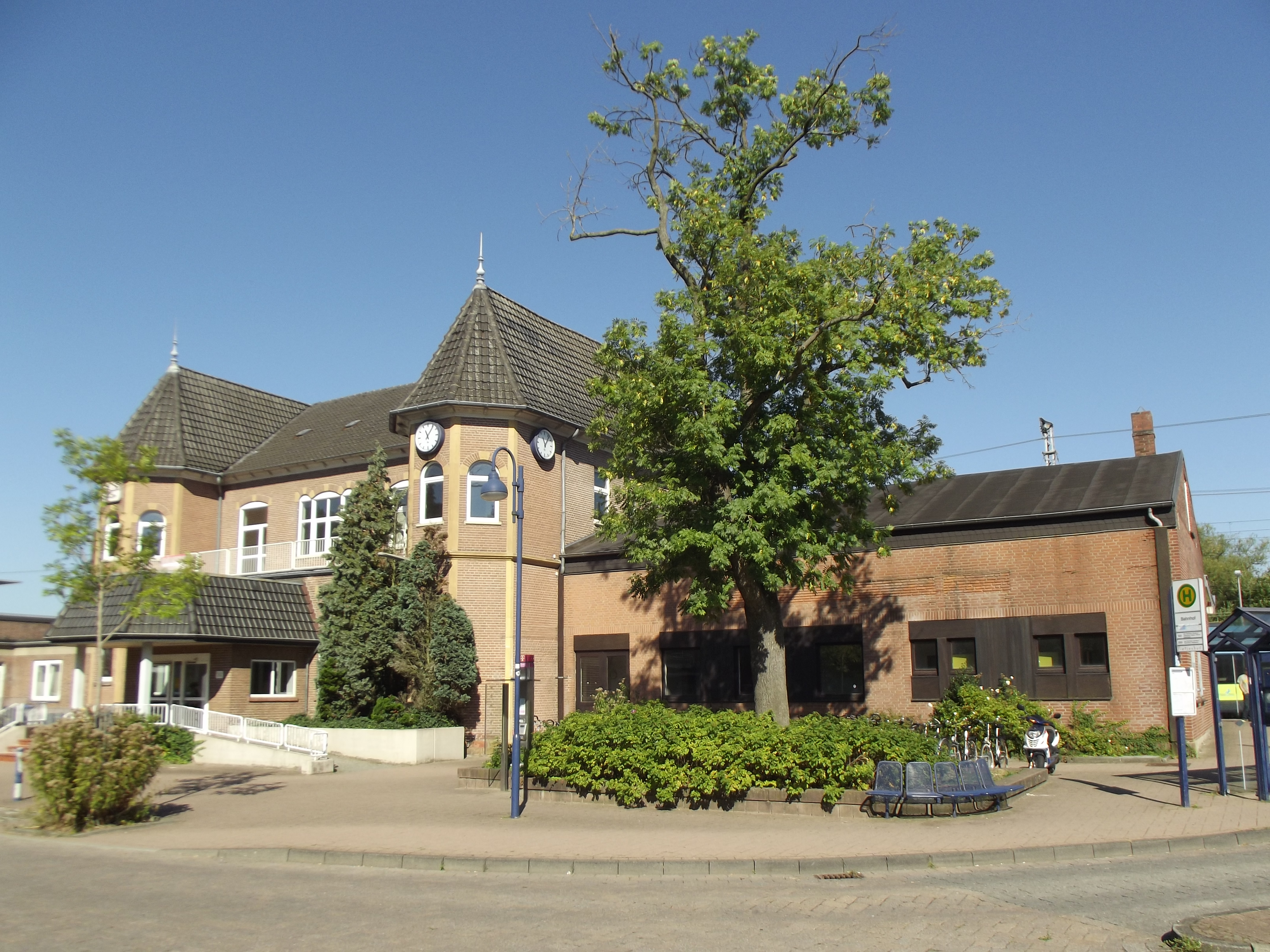 The railway sttion of Bad Bentheim in my home county